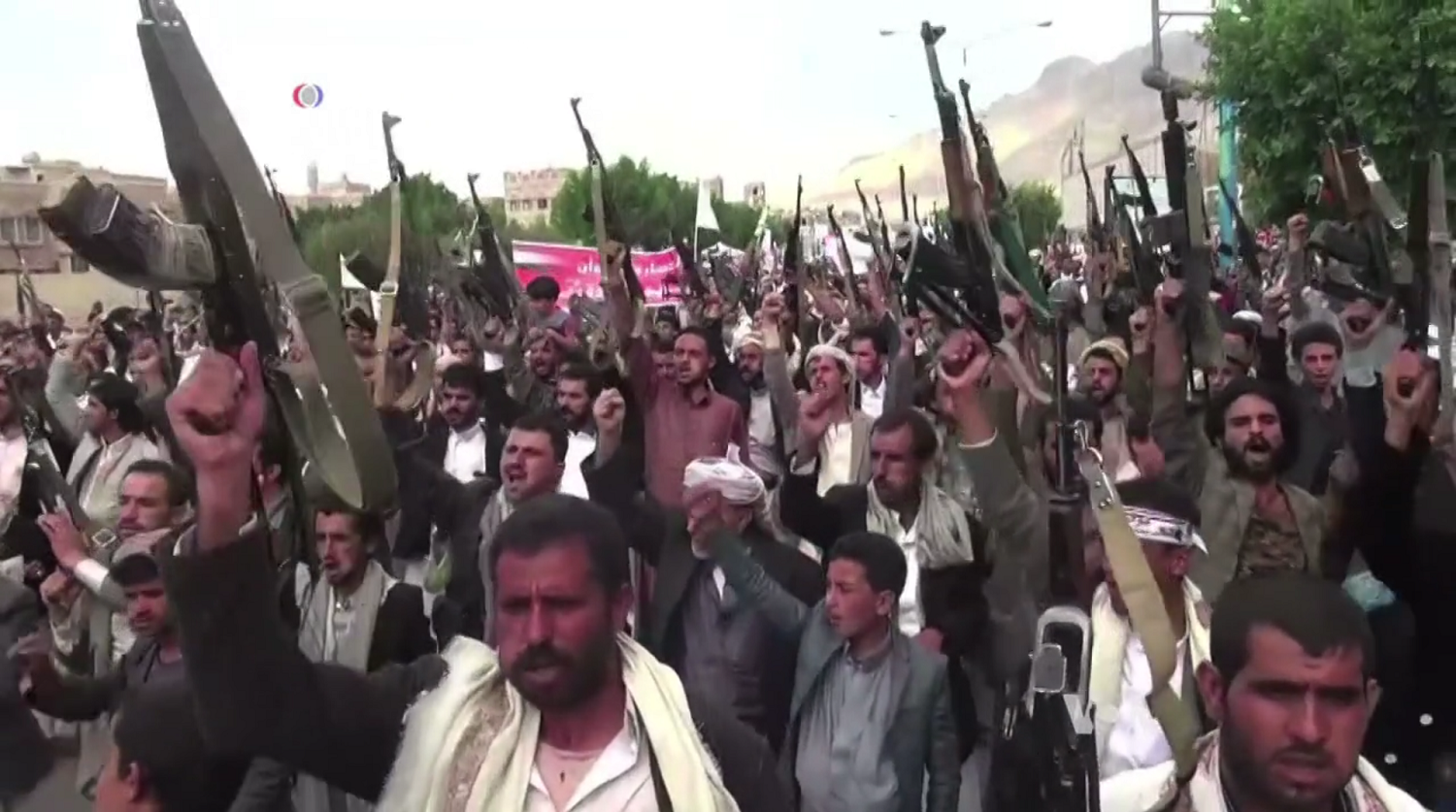 Houthis protest against airstrikes by the Saudi-led coalition on Sana'a in September 2015.